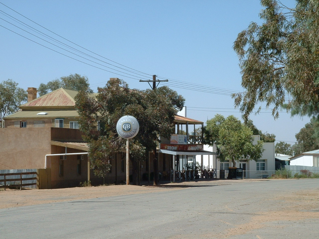 A view south along the main street of Tibooburra looking south towards the two storey pub